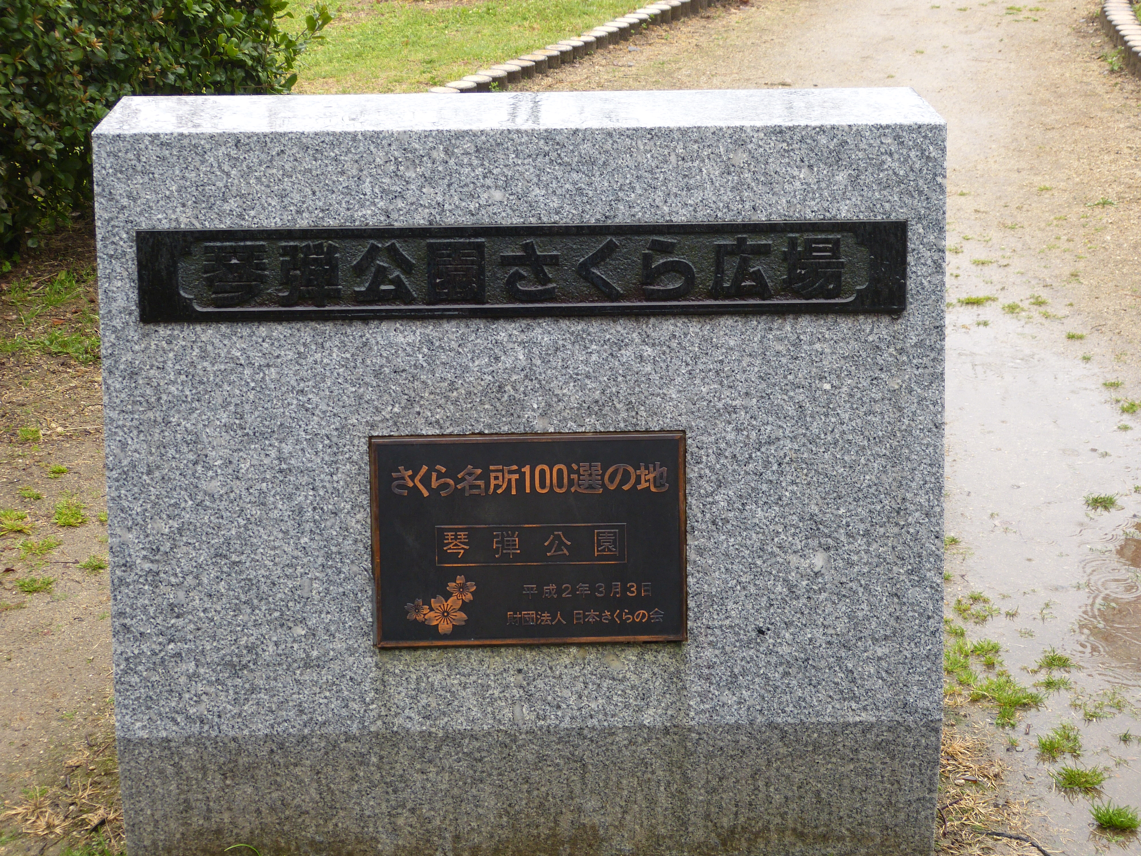 Monument of the Cherry blossoms famous place,Japan